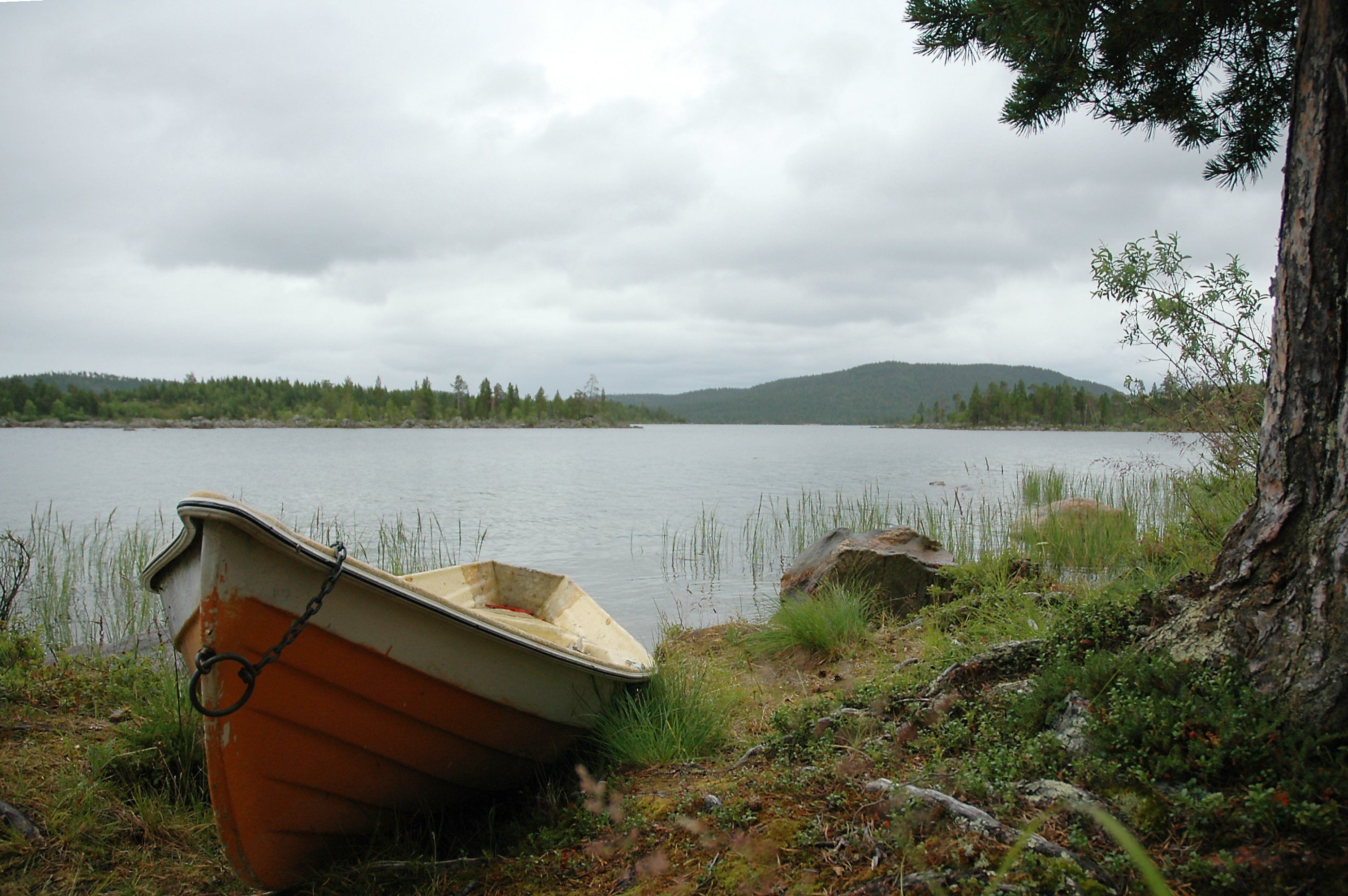 A Boat on Inari lake (Finland)